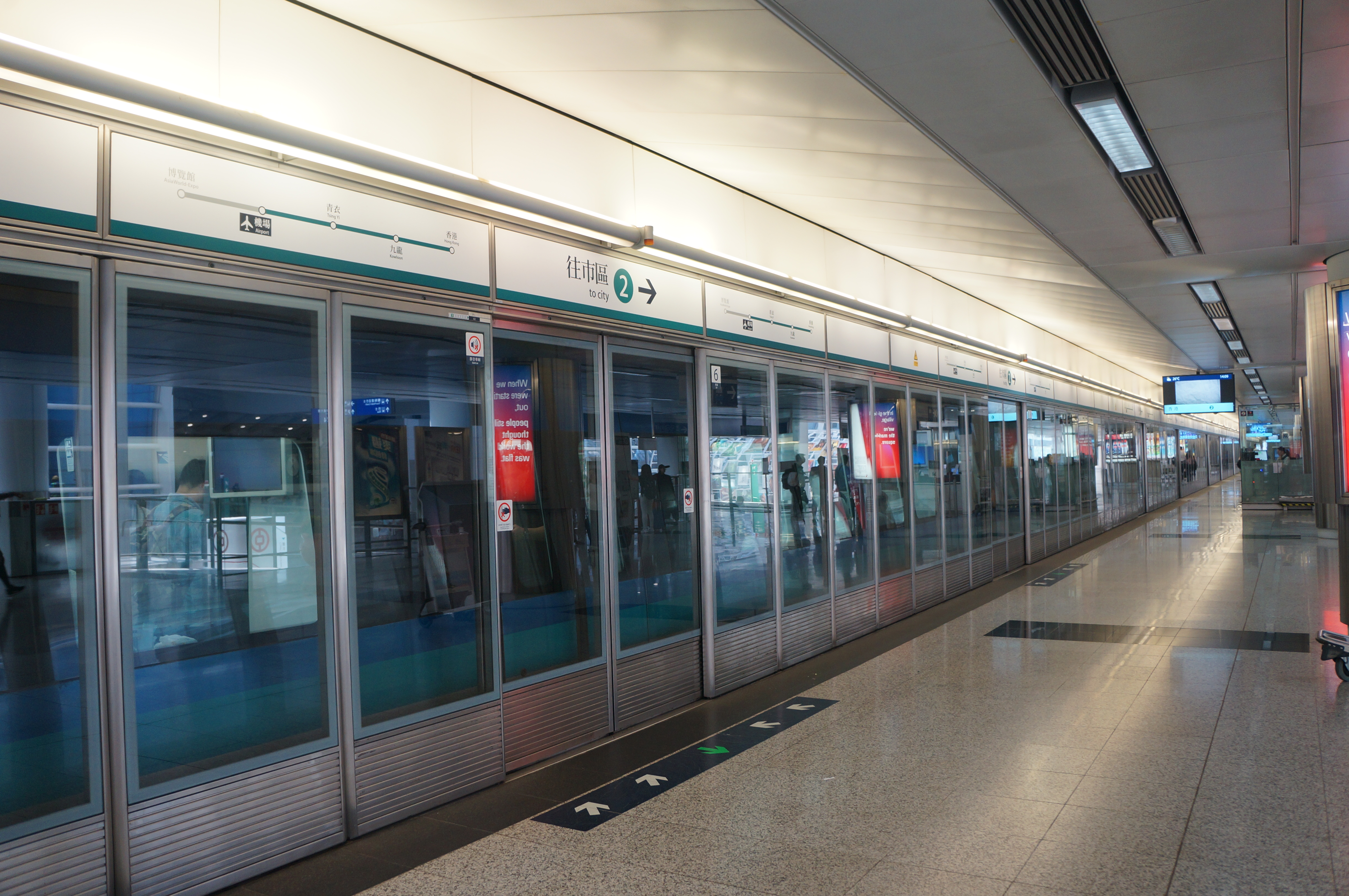 201611 Platform 2 of HKG Airport Station